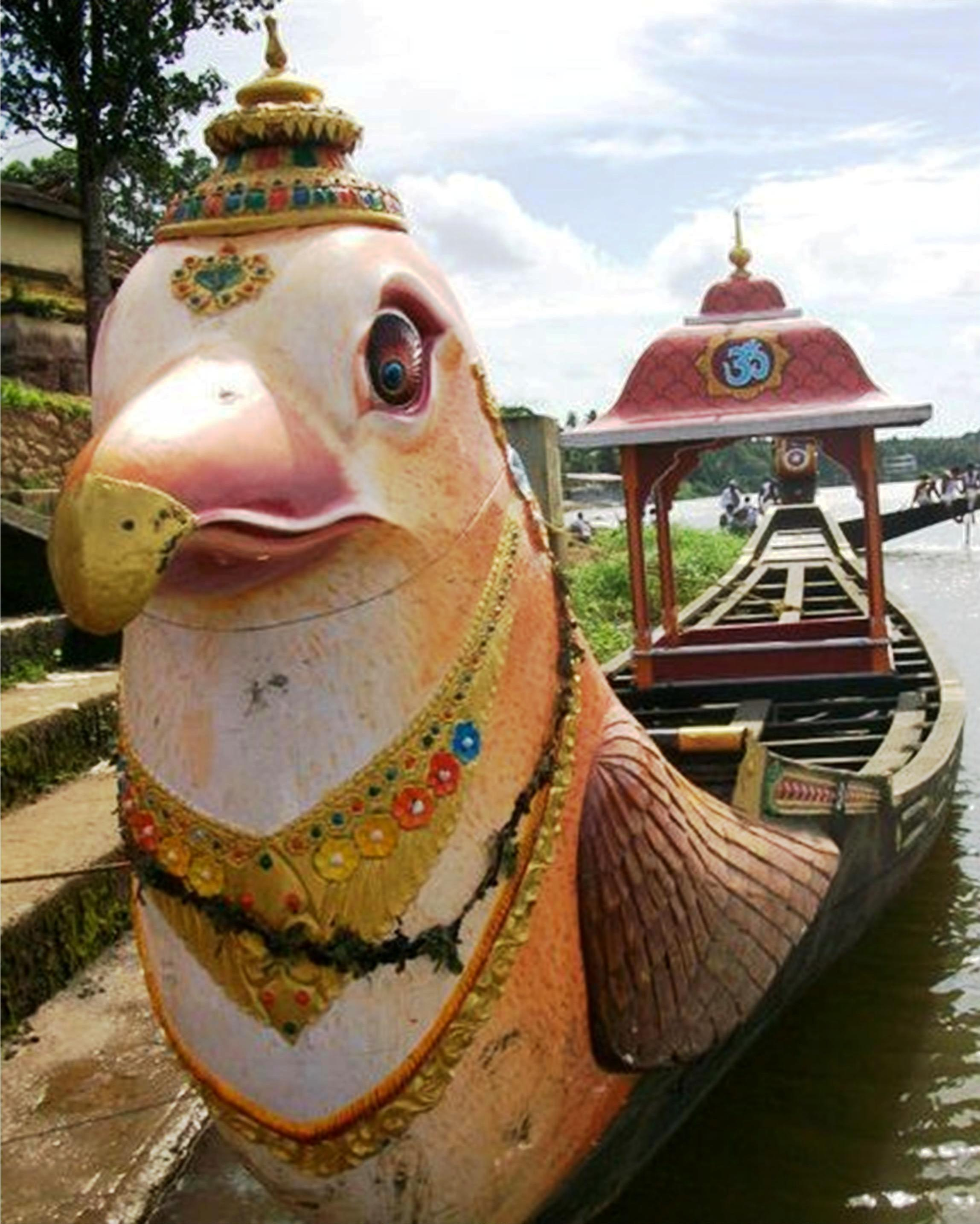 Thiruvona Thoni